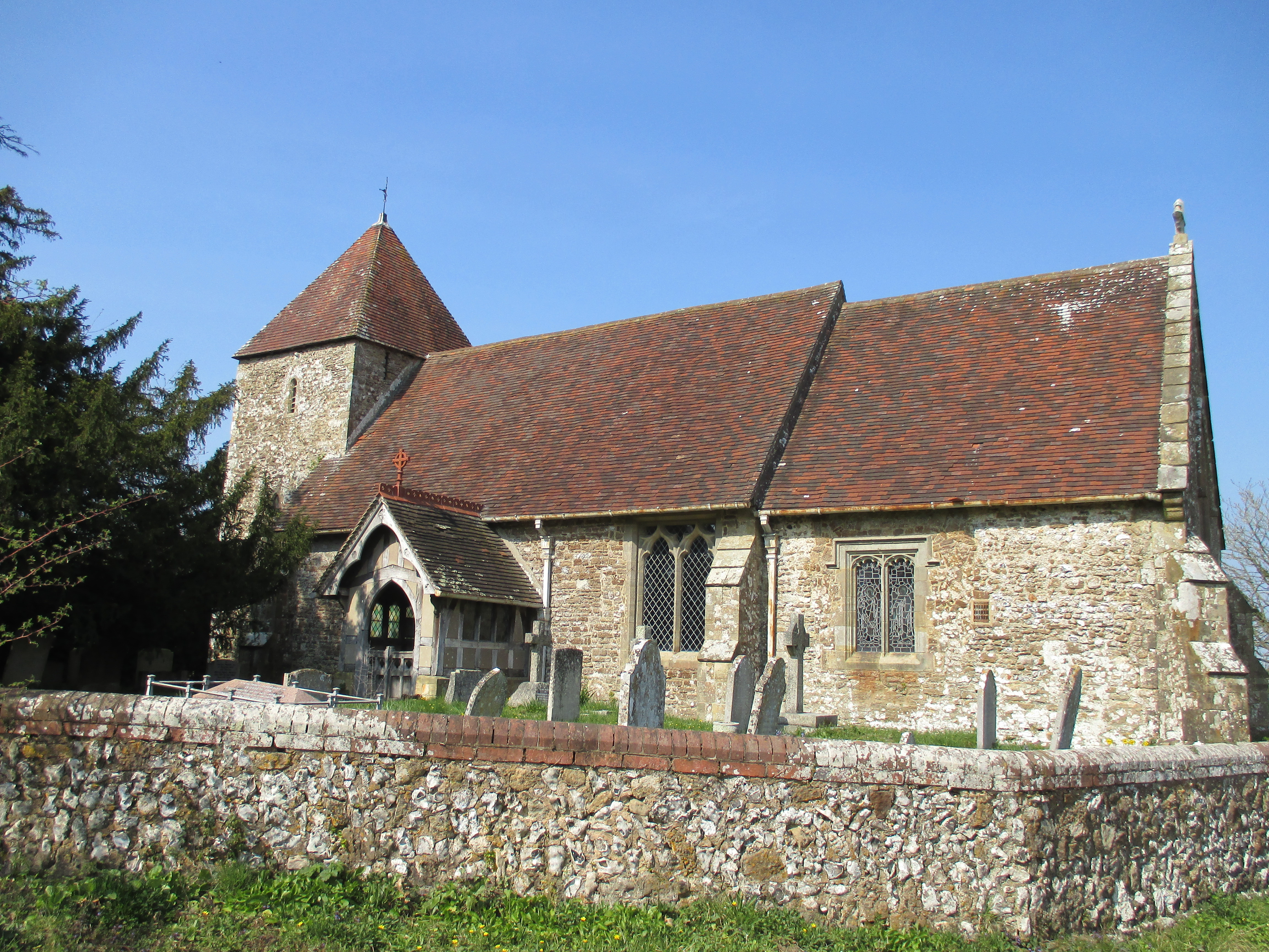 The parish church of East Chiltington, East Sussex, seen from the south.